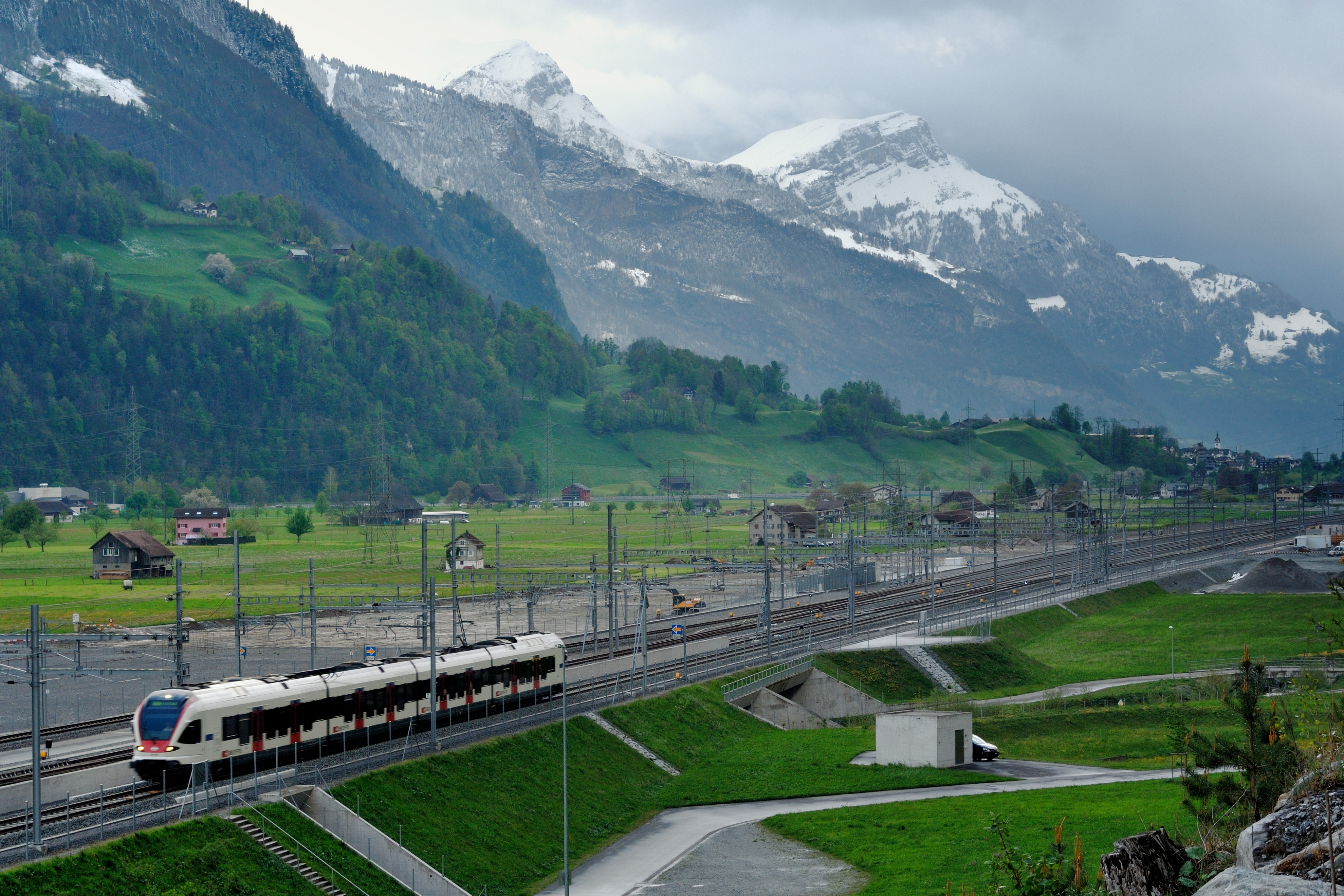 19 April 2017 weather at Erstfeld, looking north (northern approach to the Gotthard Base Tunnel). Overcast, snowfalls, maximum temperature: ~5°C. This image is part of a series showing the influence of the Alps on European climate.